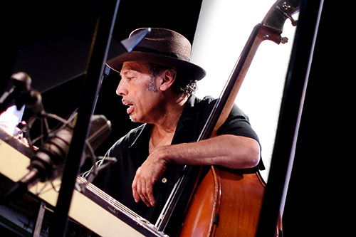 Tony Garnier at Aarhus Festival, Denmark (2015)